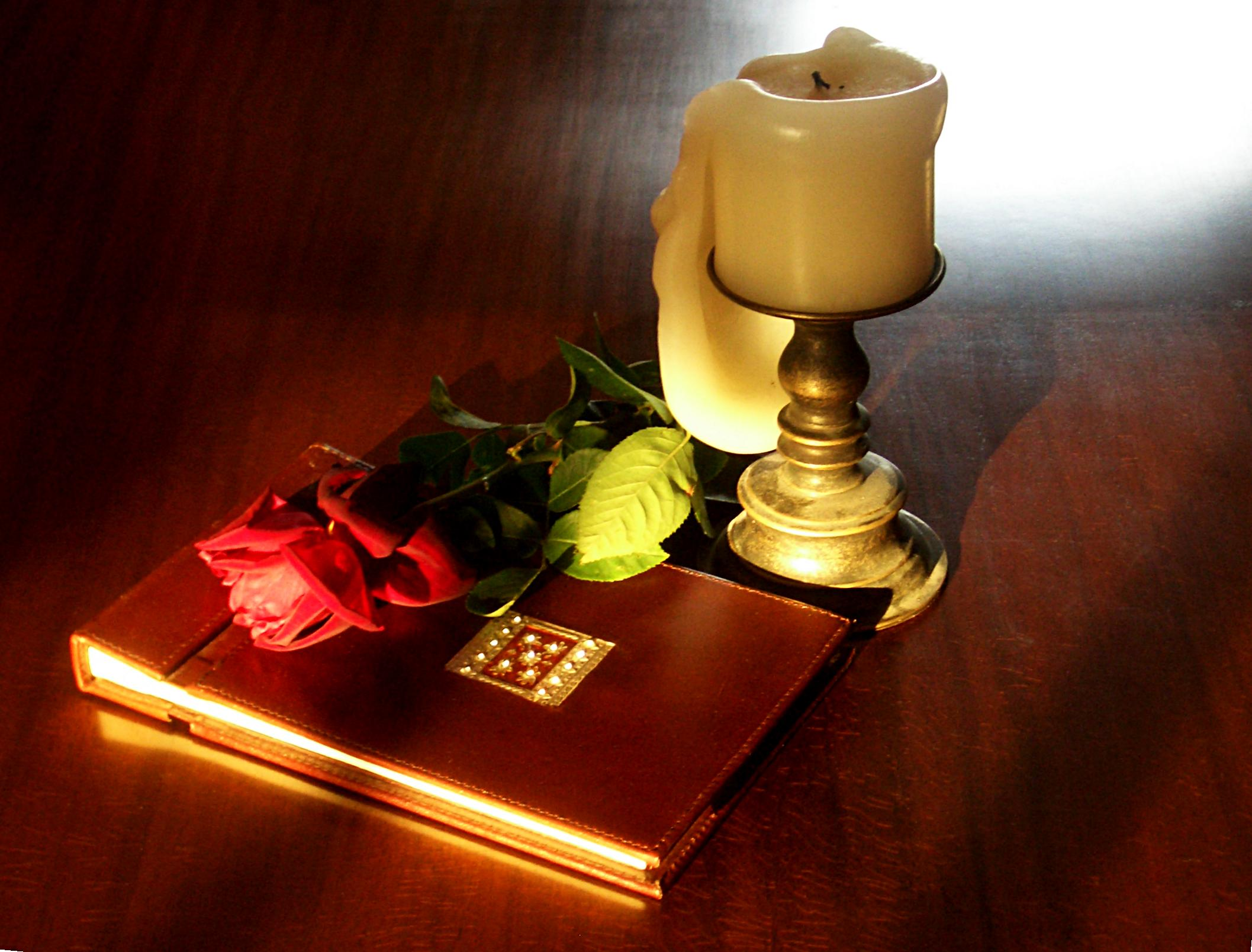 Memories A photograph of an old leather-bound photograph album with a candle and a rose nearby. Sunlight, polished wood, and emotion.